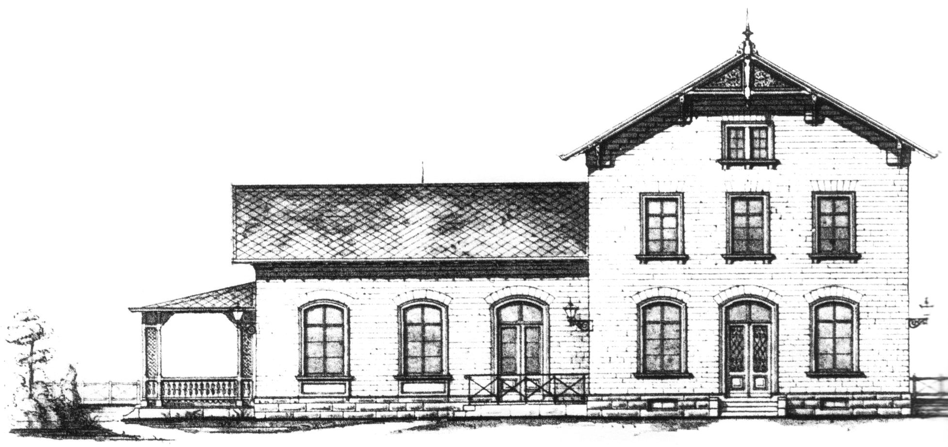 main building of Grötzingen station.